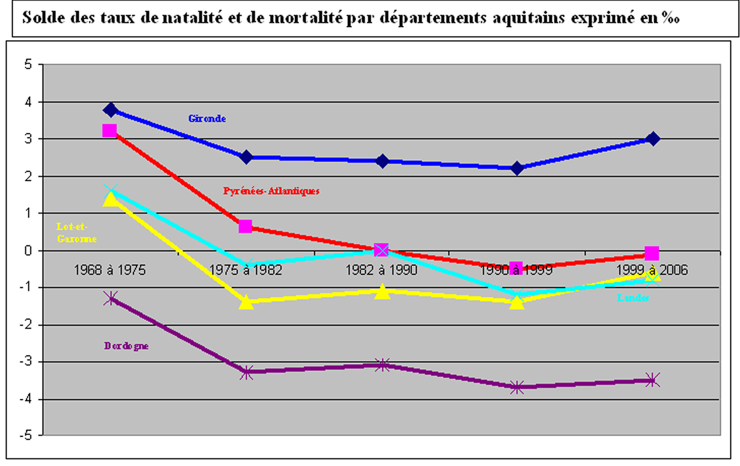 Net birth rates and mortality for the departments of Aquitaine expressed in ‰ (1968-2006)